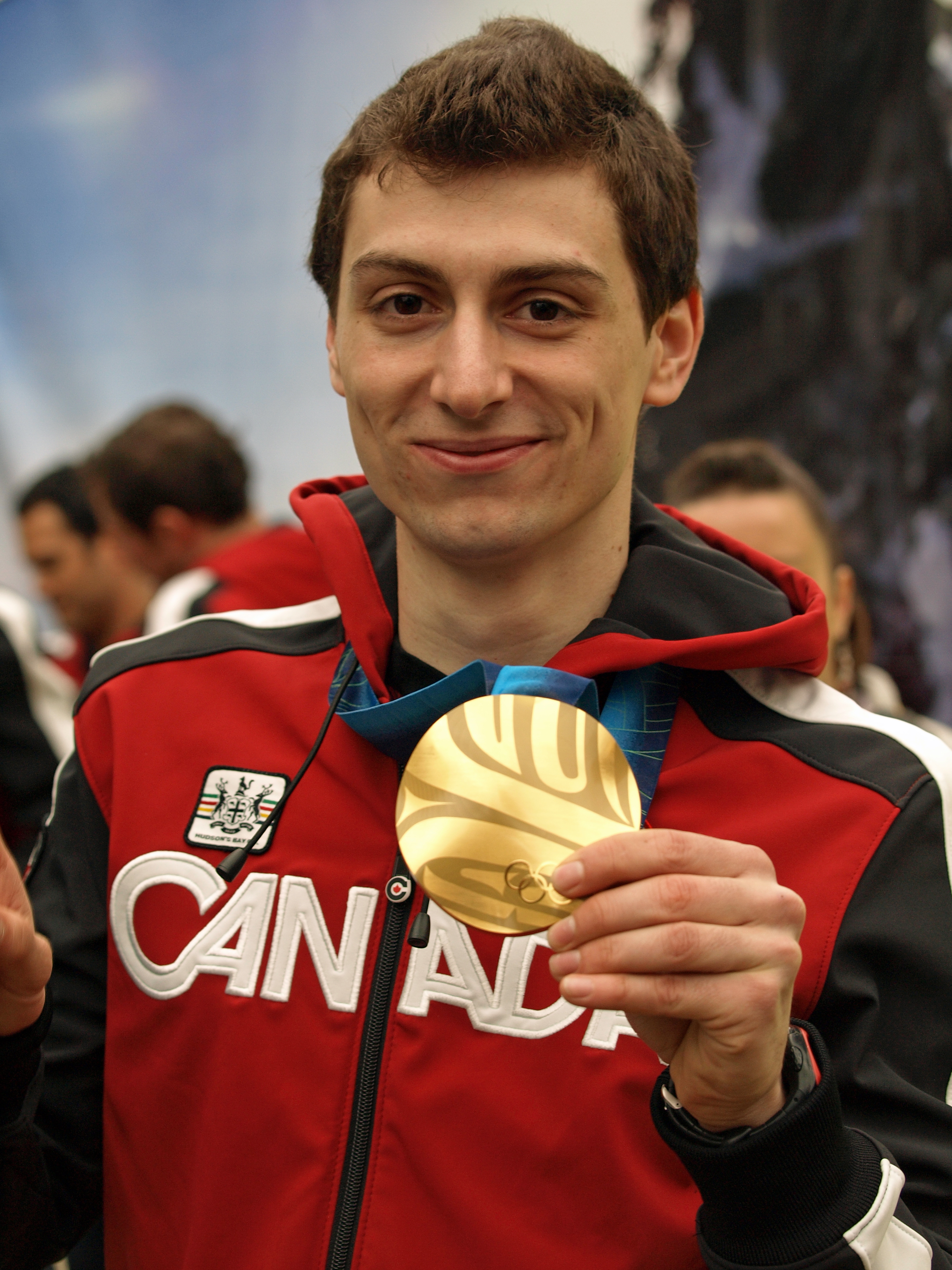 Guillaume Bastille, Gold medal winner in the 5000 metre relay short track speed skating at the 2010 Winter Olympics. I was really lucky to get between the security guards as they were leading the gold medal speed skating team to the studio to be interviewed, he posed specially for me here :-)